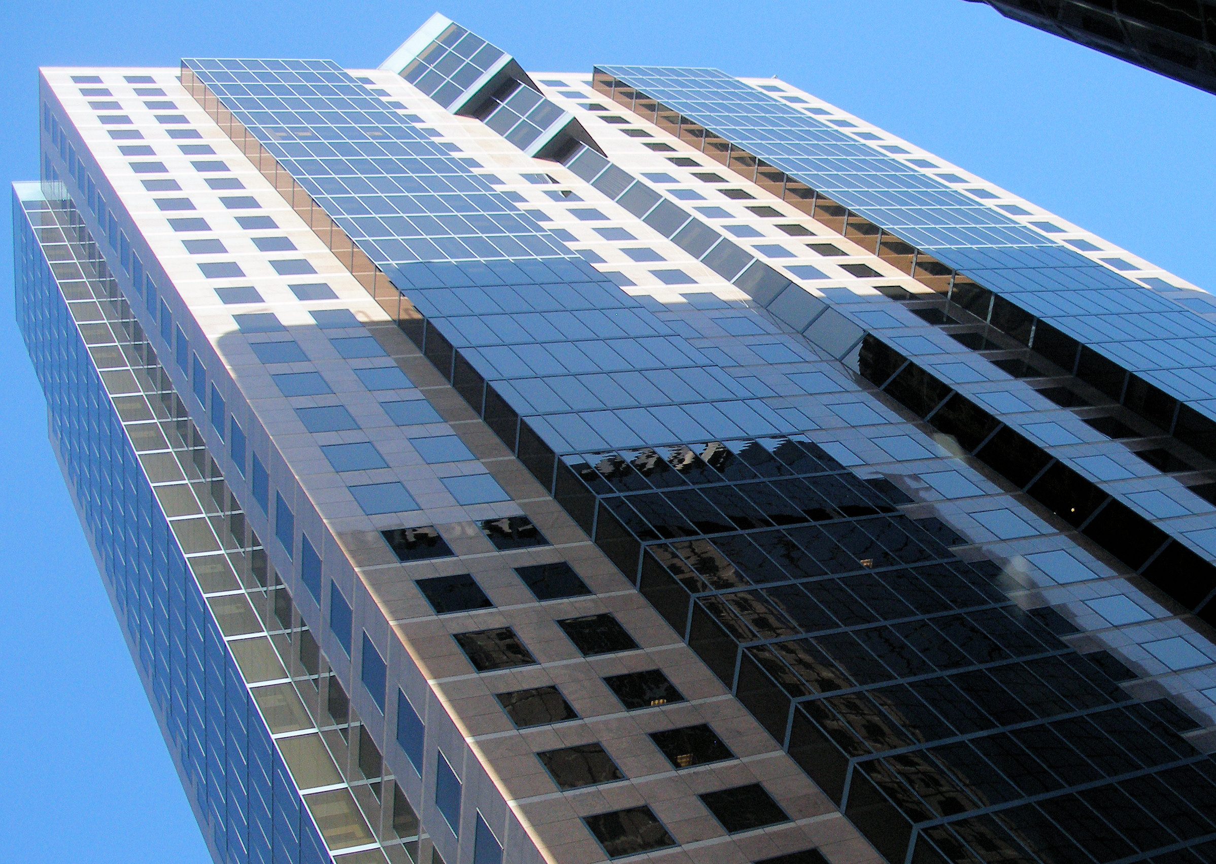 Symphony Towers at 750 B Street, San Diego. The California Court of Appeal for the Fourth Appellate District, Division One, is based here.